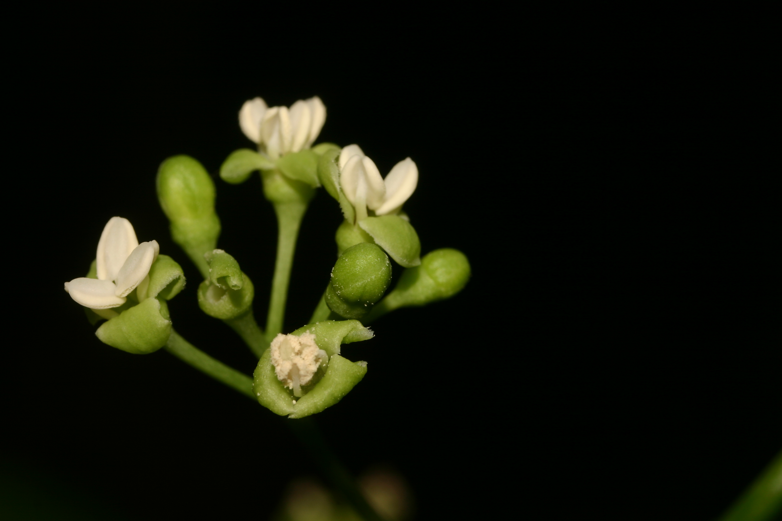 Inflorescence with male flowers of Grevea madagascariensis Bail., Collection Number RMM 475, collected near Maintirano/Madagascar, cultivated at Palmengarten Frankfurt